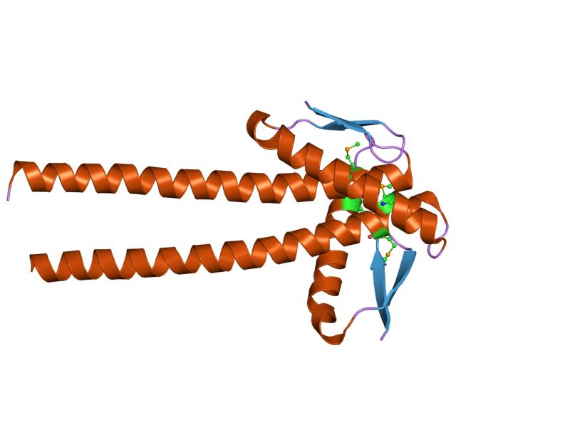 Cartoon representation of the molecular structure of protein registered with 1w2e code.